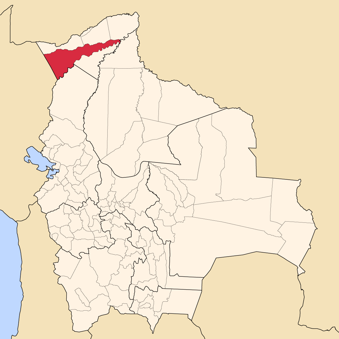 Map of Bolivia showing Manuripi province, Pando